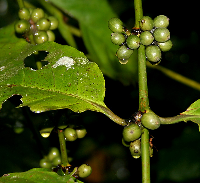 Robusta Coffee plant Coffea canephora in Goa, India.